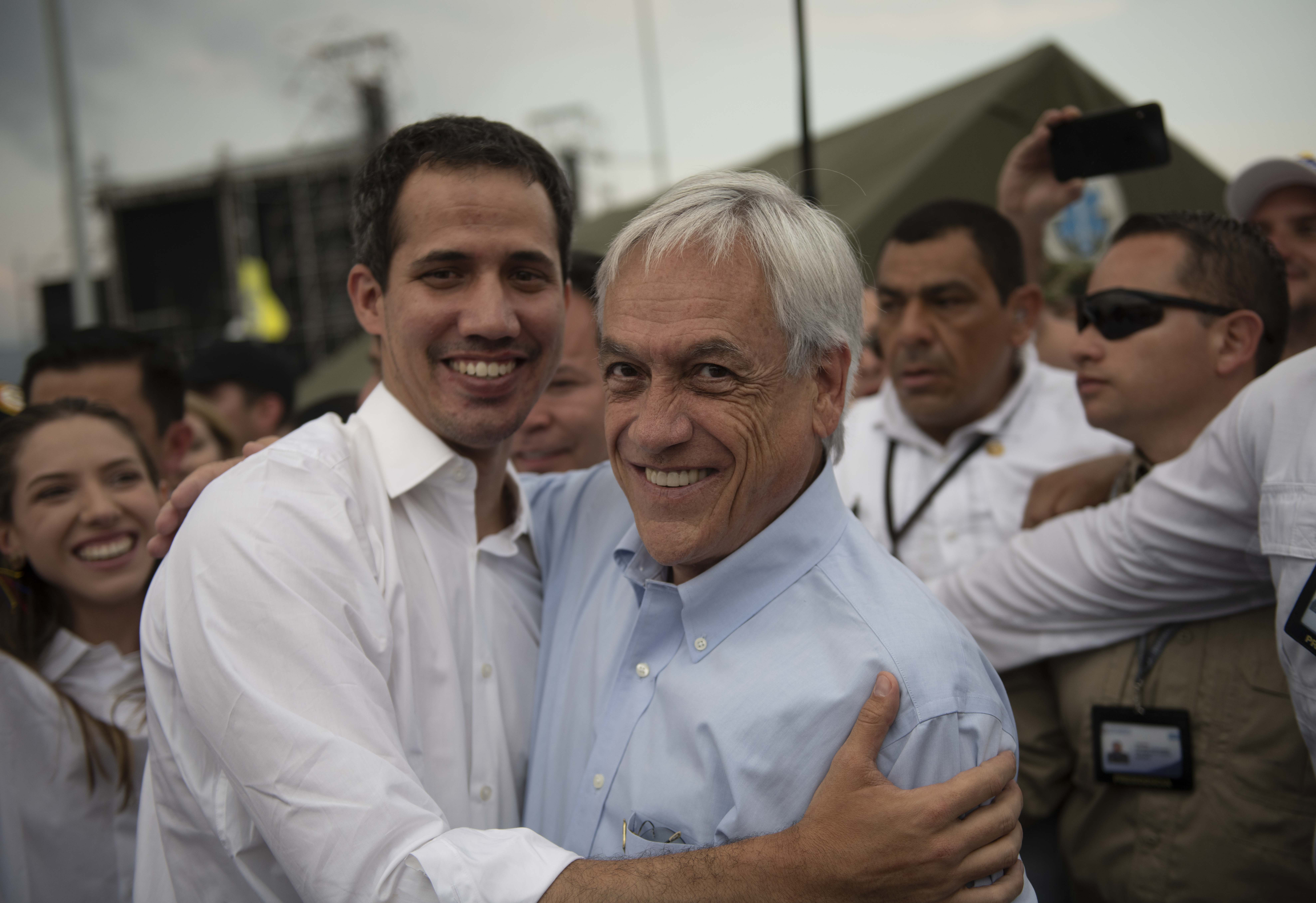 Interim President Juan Guaidó (Venezuela) and President Sebastián Piñera (Chile) on Friday, February 22nd, 2019 in Cúcuta, Colombia, close to the border of Venezuela.